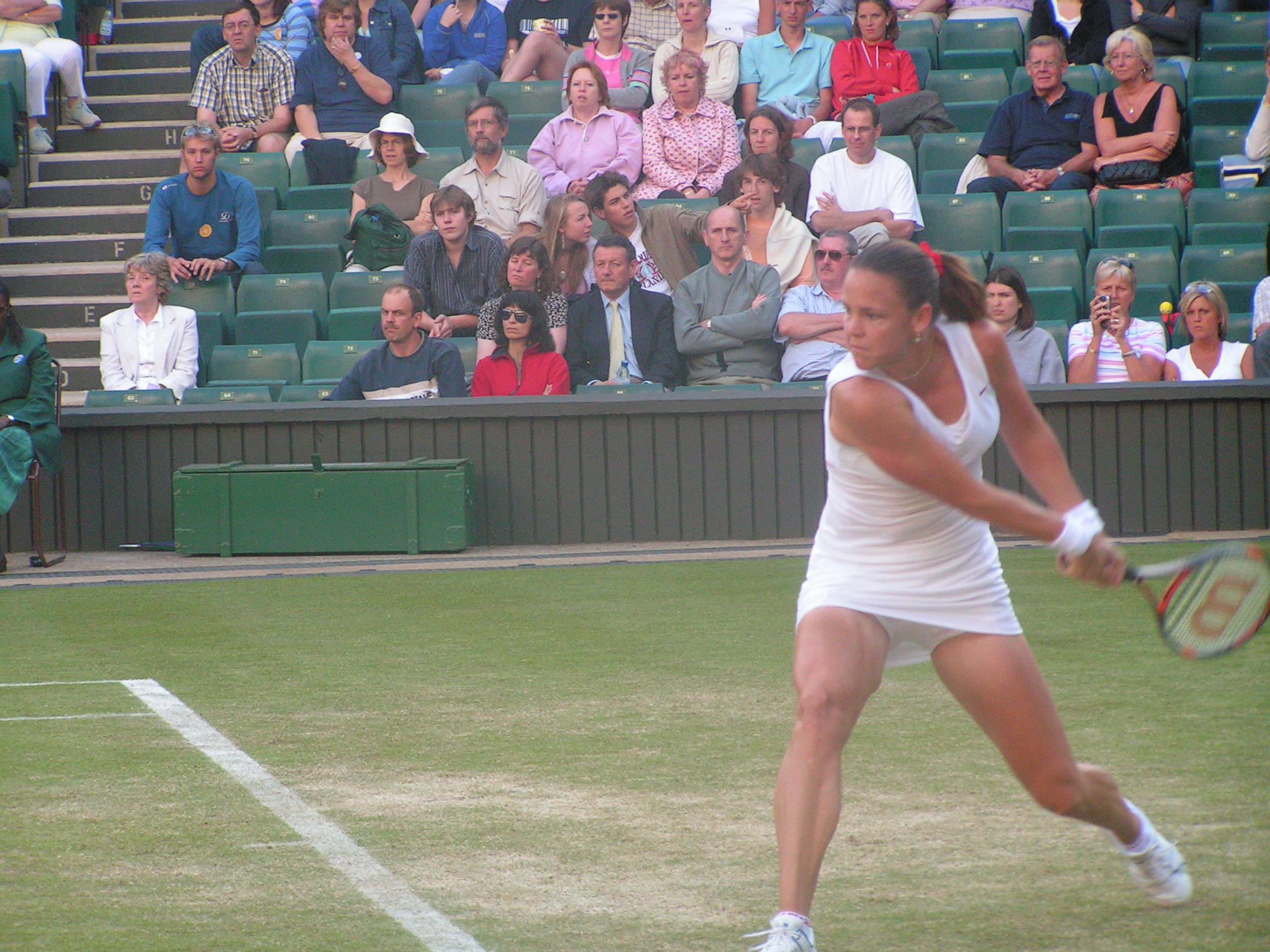 Lindsay Davenport prepares for a backhand swing, Wimbledon 2004.